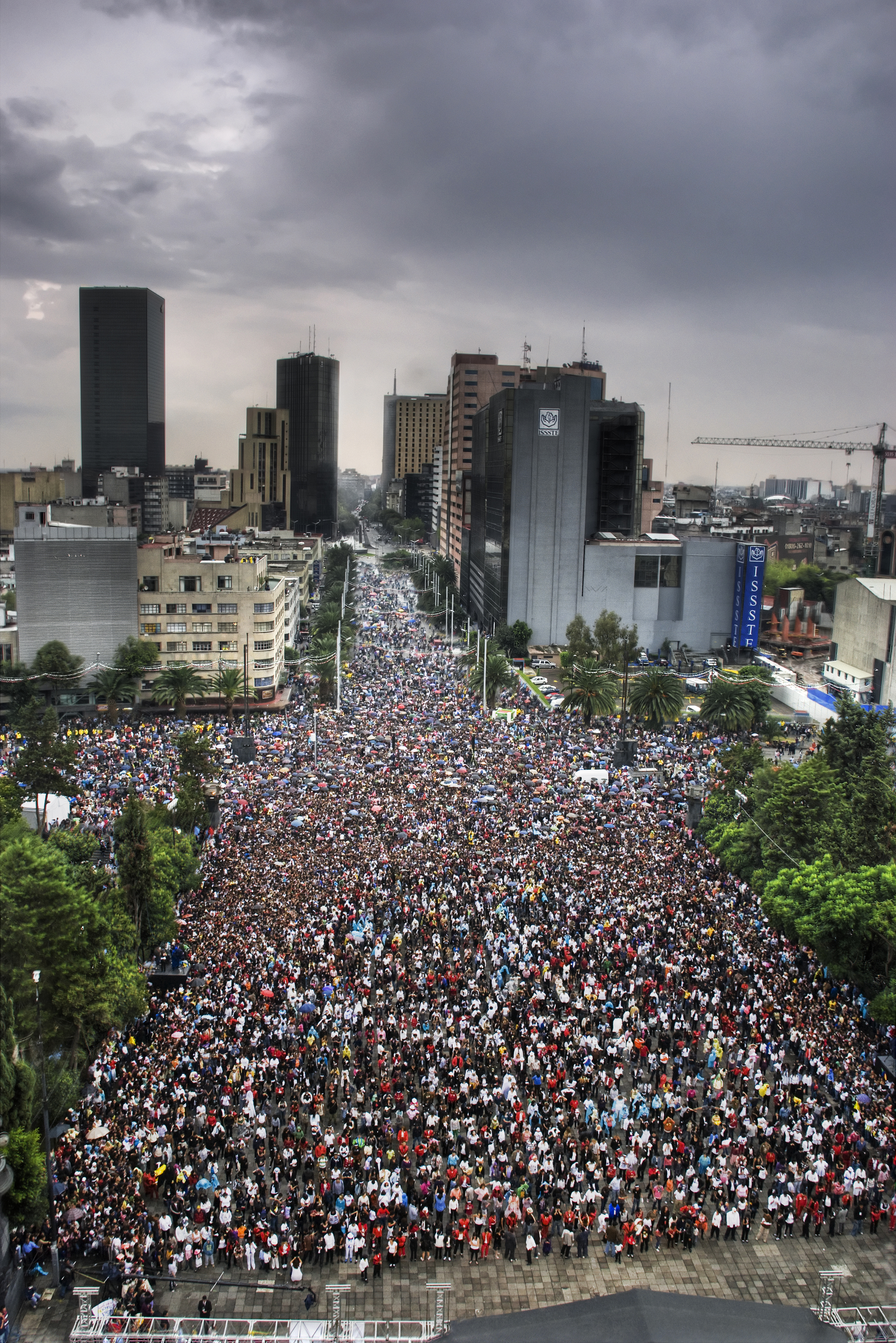 Mexico City established a new Guinness World Record for the largest number of people dancing Michael Jackson's "Thriller" simultaneously with 13 thousand people.